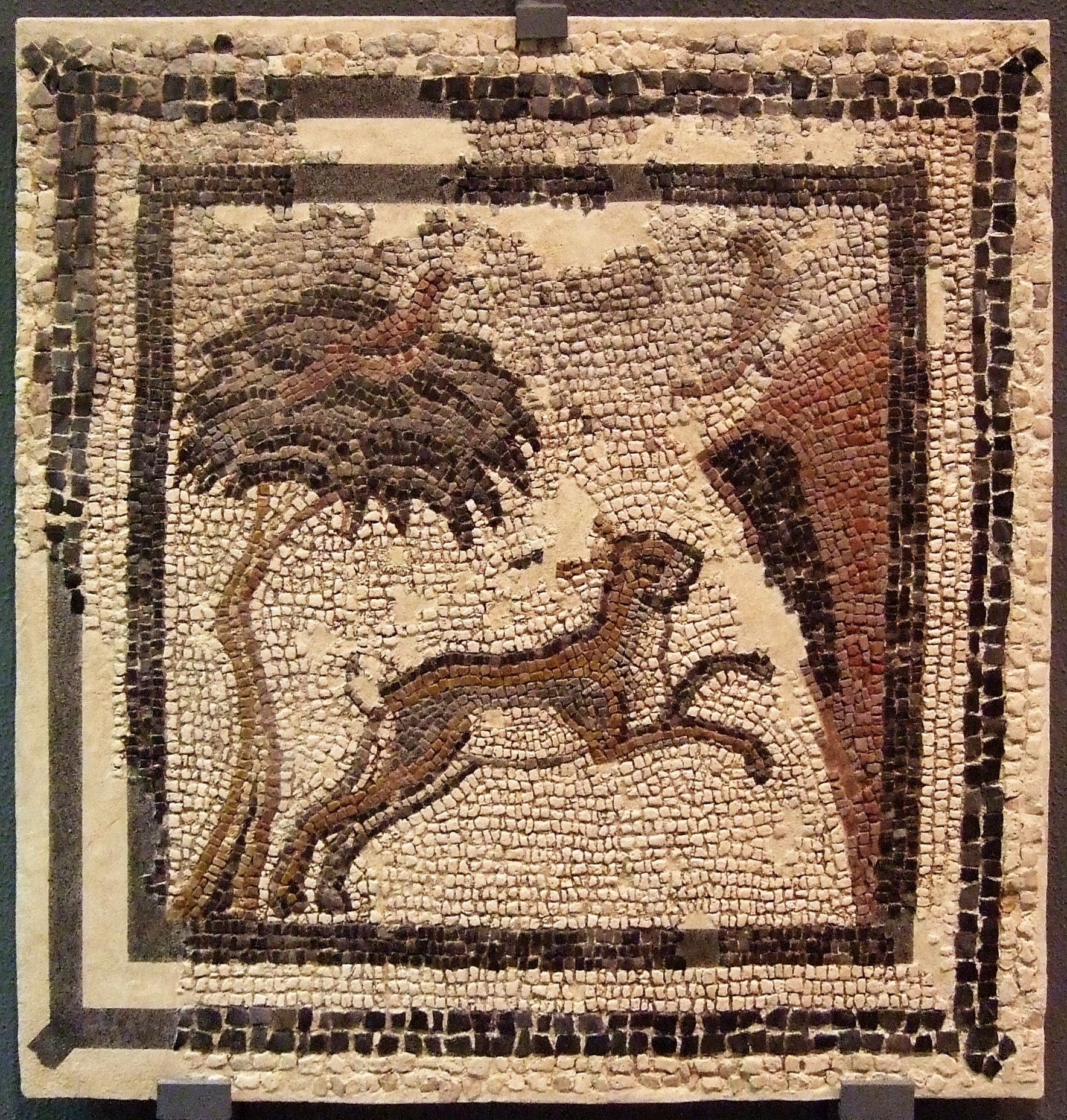 Agricultural calendary (2nd half of 4th c AC). Villa Fortunatus. Mosaic